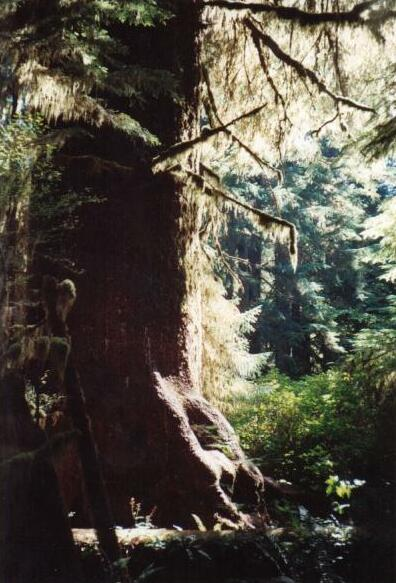 The Carmanah Giant, a Picea sitchensis, the largest tree in Canada, at Carmanah Walbran Provinical Park, British Columbia.